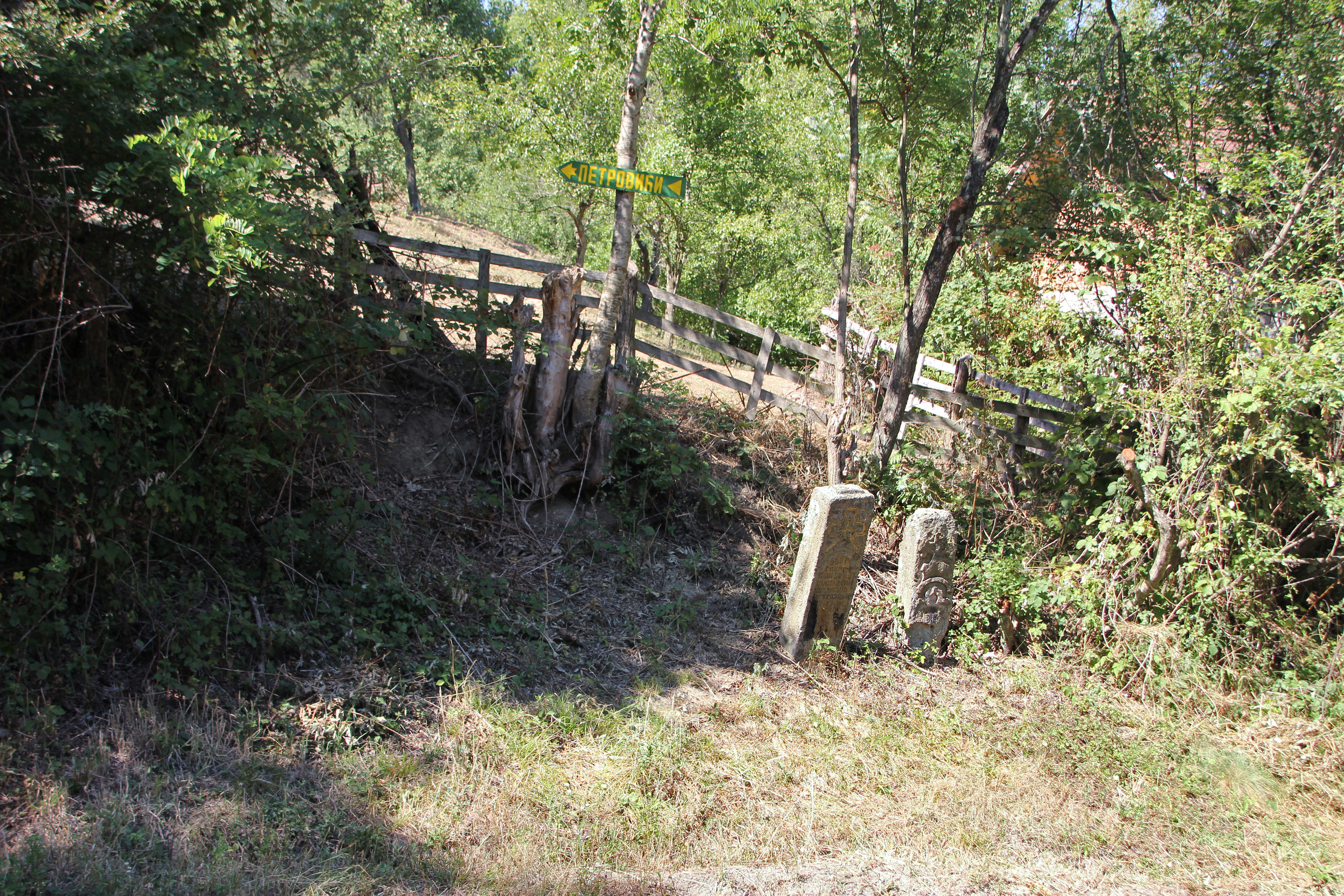 Roadside tombstones erected in memory of Ivan and Dusan Petrovic. It is located in the village of Trudelj (the municipality of Gornji Milanovac), Serbia.